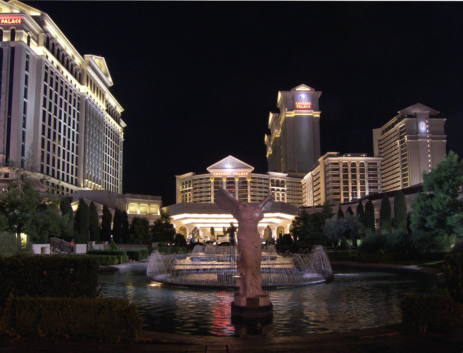 The Nike of Samothrace Fountains at Caesars Palace in Las Vegas, Nevada, United States.